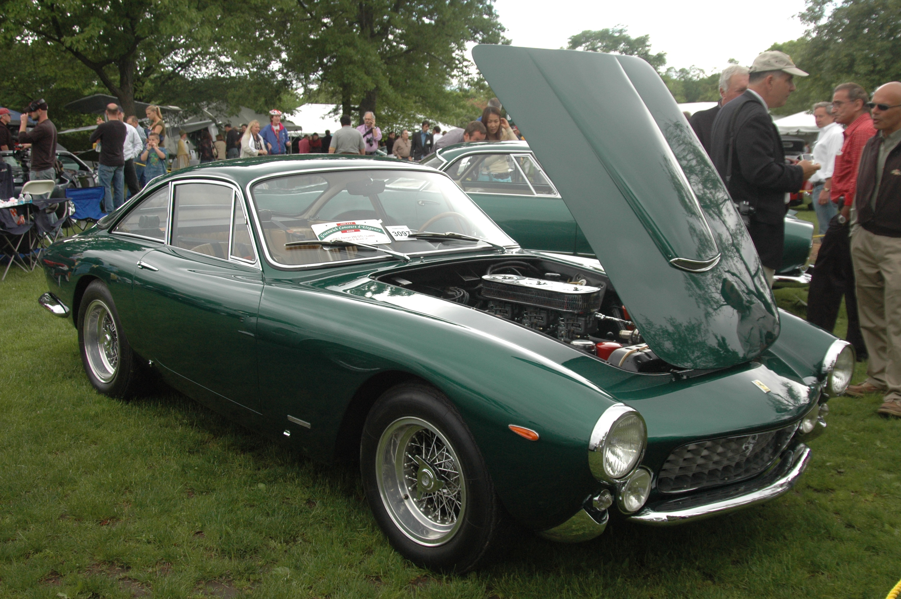 1963 Ferrari 250 GTL / Lusso Coupe Photographed by Jagvar at the Greenwich Concours d'Elegance in Greenwich, CT on June 4, 2006.